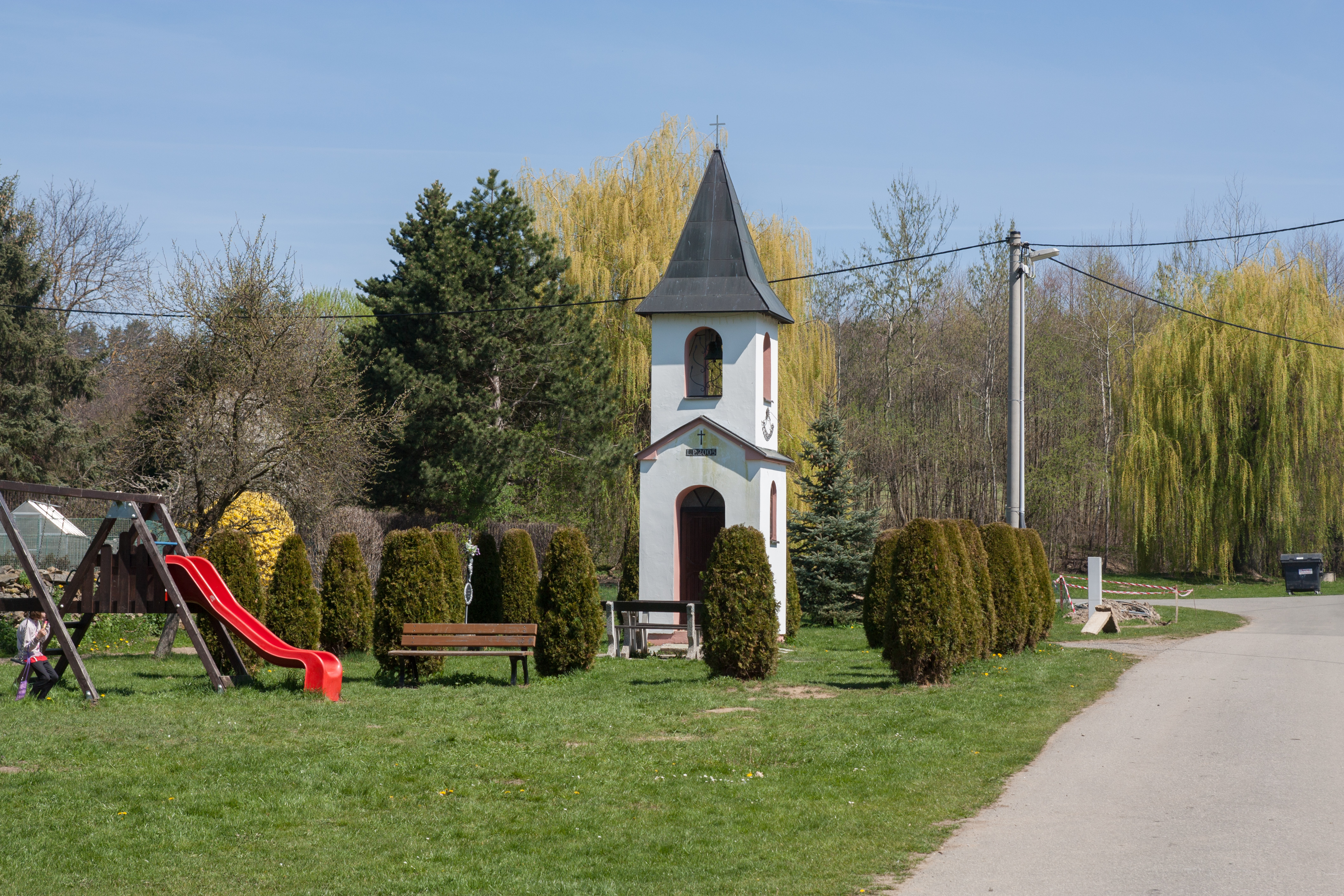 Belfry in municipality Mostek, Tábor District, South Bohemian Region, Czechia